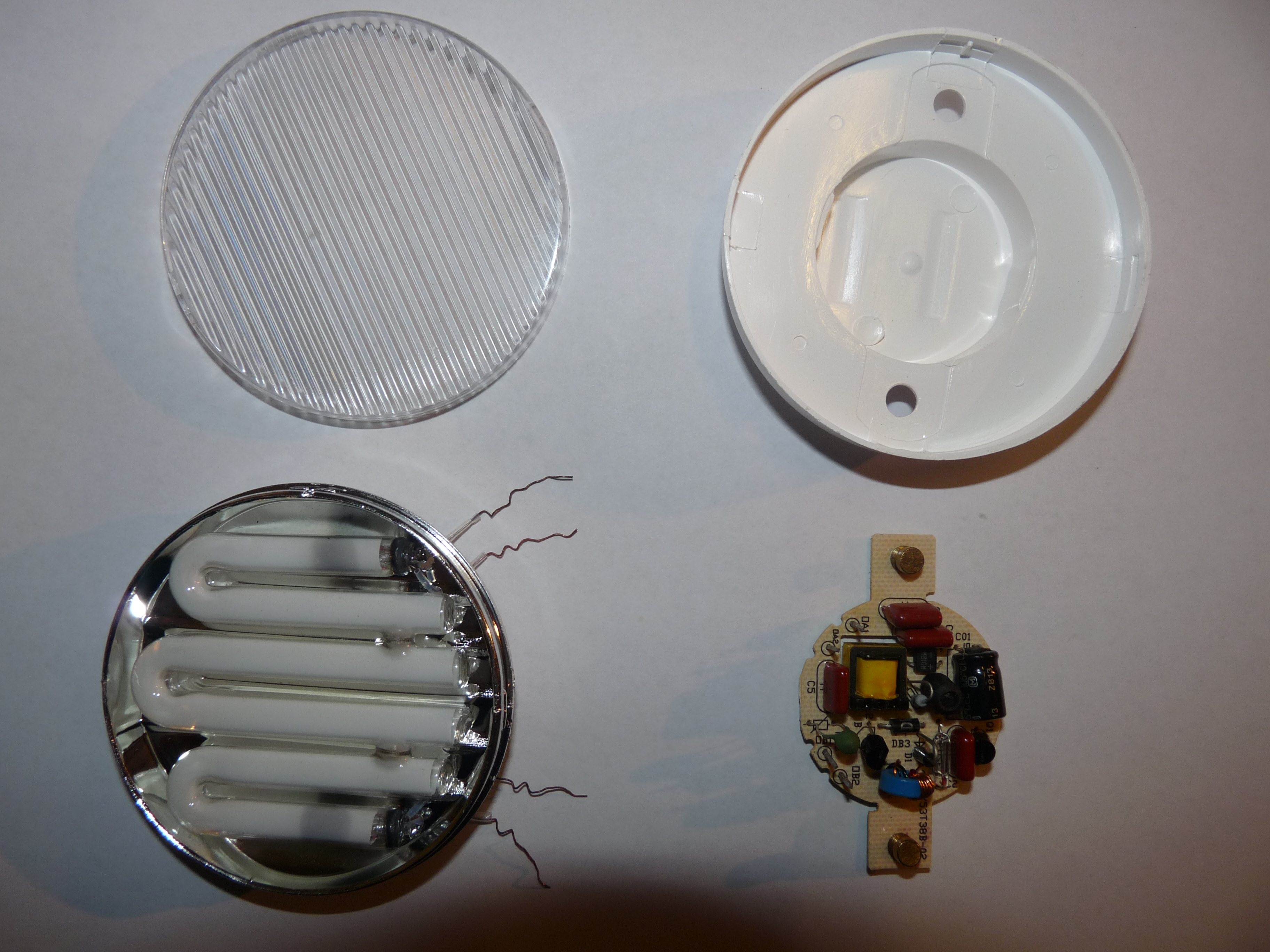 Inside of G53 CFL